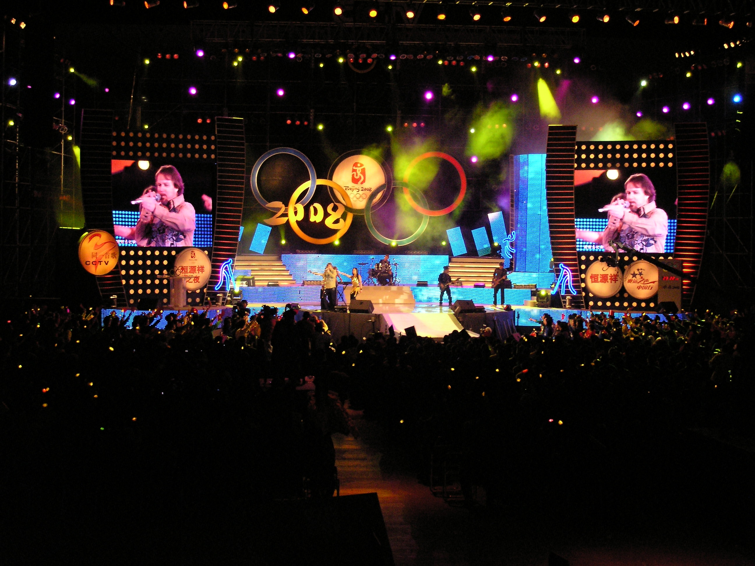 Photo of Liquid Blue playing in Beijing